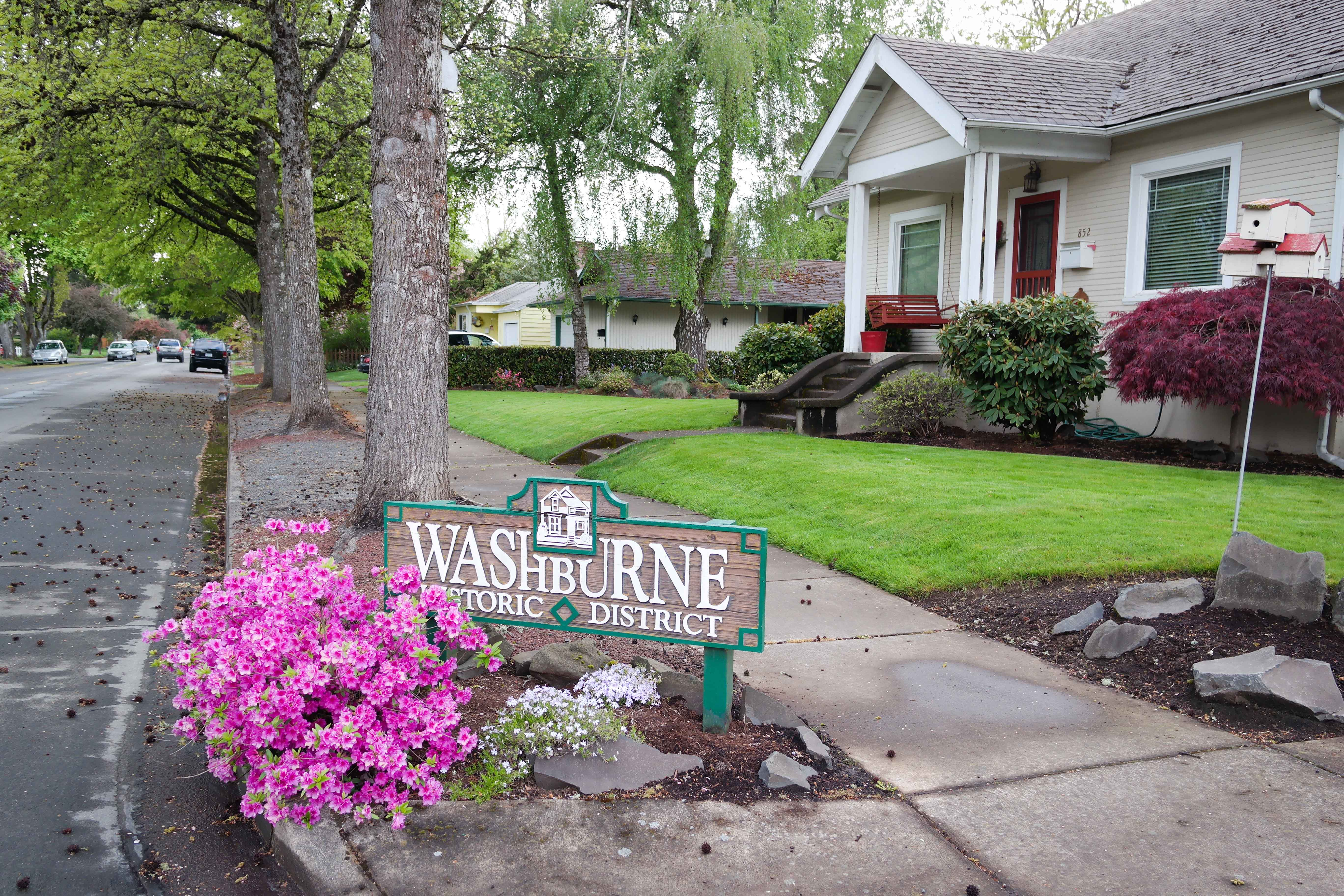 Entering the Washburne Historic District at 9th and E Streets in Springfield, Oregon